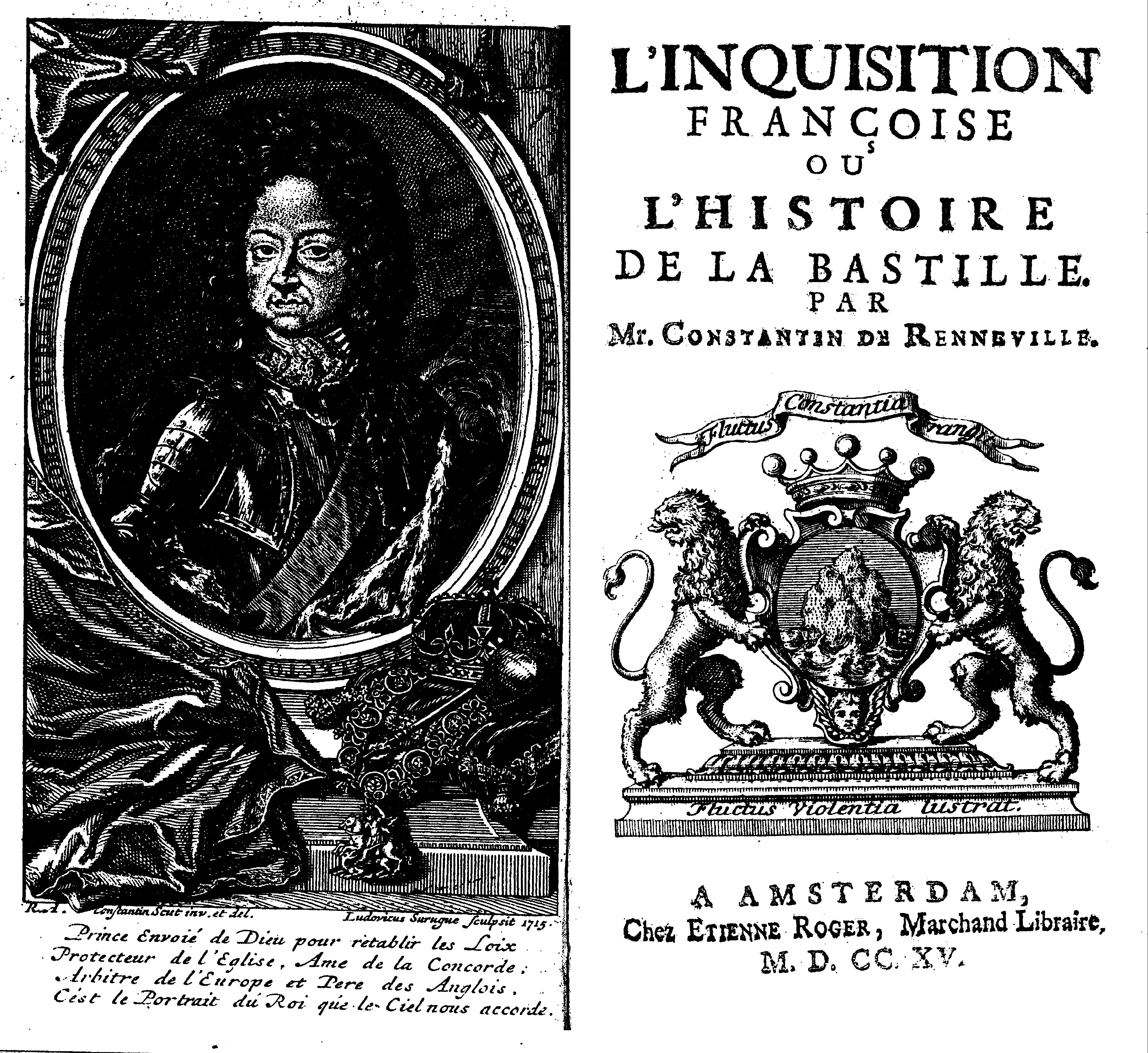 Frontispiece (depicting George I of Great Britain) and title of René Auguste Constantin de Renneville's L’Inquisition Françoise (Amsterdam Estienne Roger, 1515).